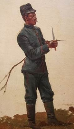 Military Type